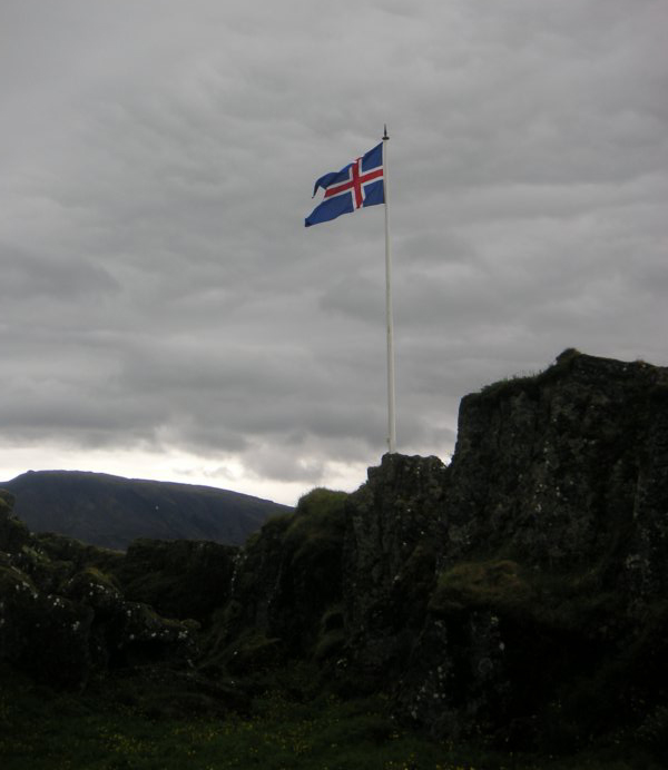 At the Law Rock, or Lögberg, a rocky outcrop on which the Lawspeaker, or lögsögumaður, took his seat as the presiding official of the Icelandic Althing (Alþing), at Thingvellir, or Þingvellir, Iceland. assembly.